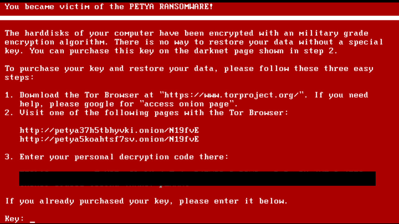 The message displayed to users infected by the ransomware Petya.A.